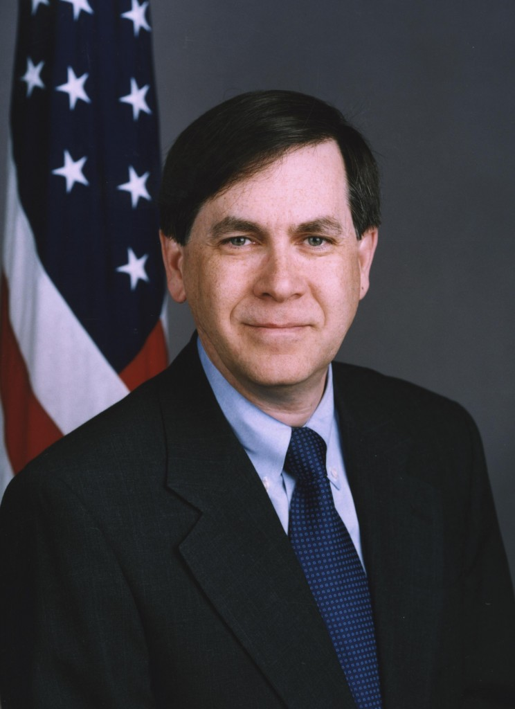 US State Department photo of Ambassador David M. Satterfield